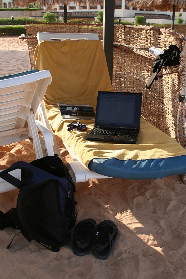 Photo of a notebook on a beach.